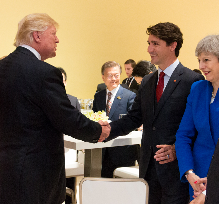 President Donald J. Trump, Prime Minister Justin Trudeau, Prime Minister Theresa May, and Prime Minister Narendra Modi | July 7, 2017 (Official White House Photo by Shealah Craighead)